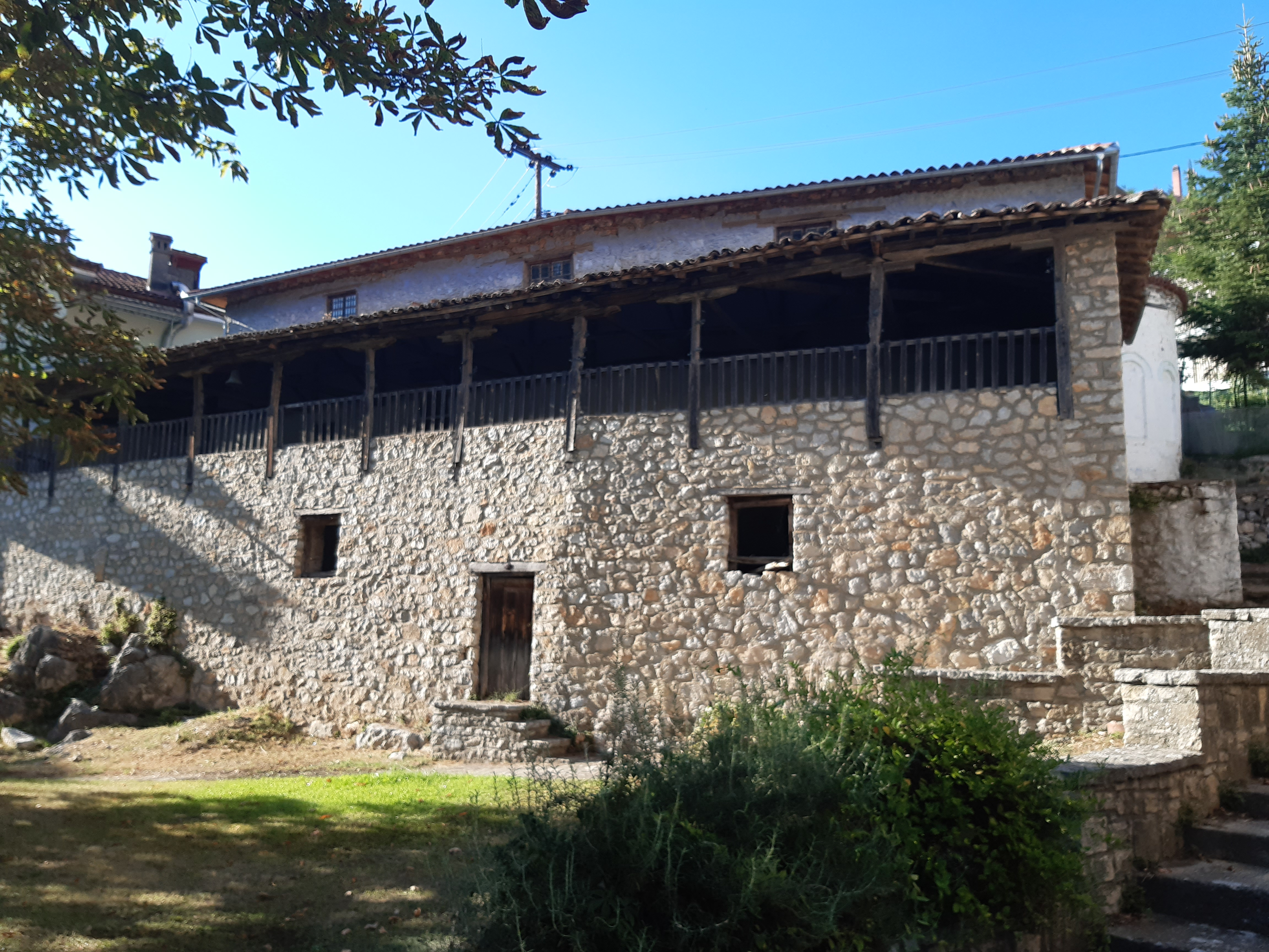 Saint John the Theologian Church, Kastoria